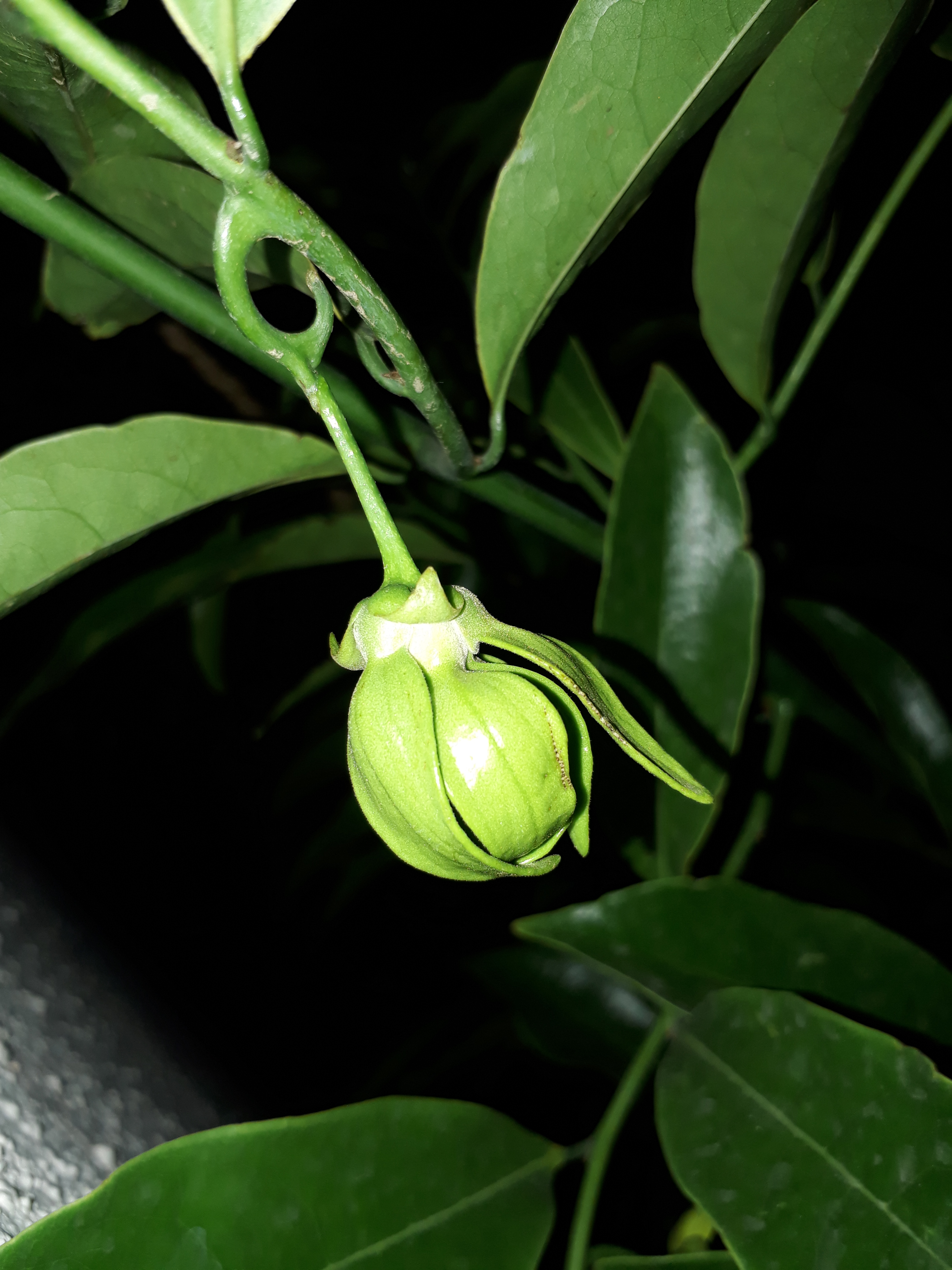 Artabotrys odoratissamus Marathi हिरवा चाफा